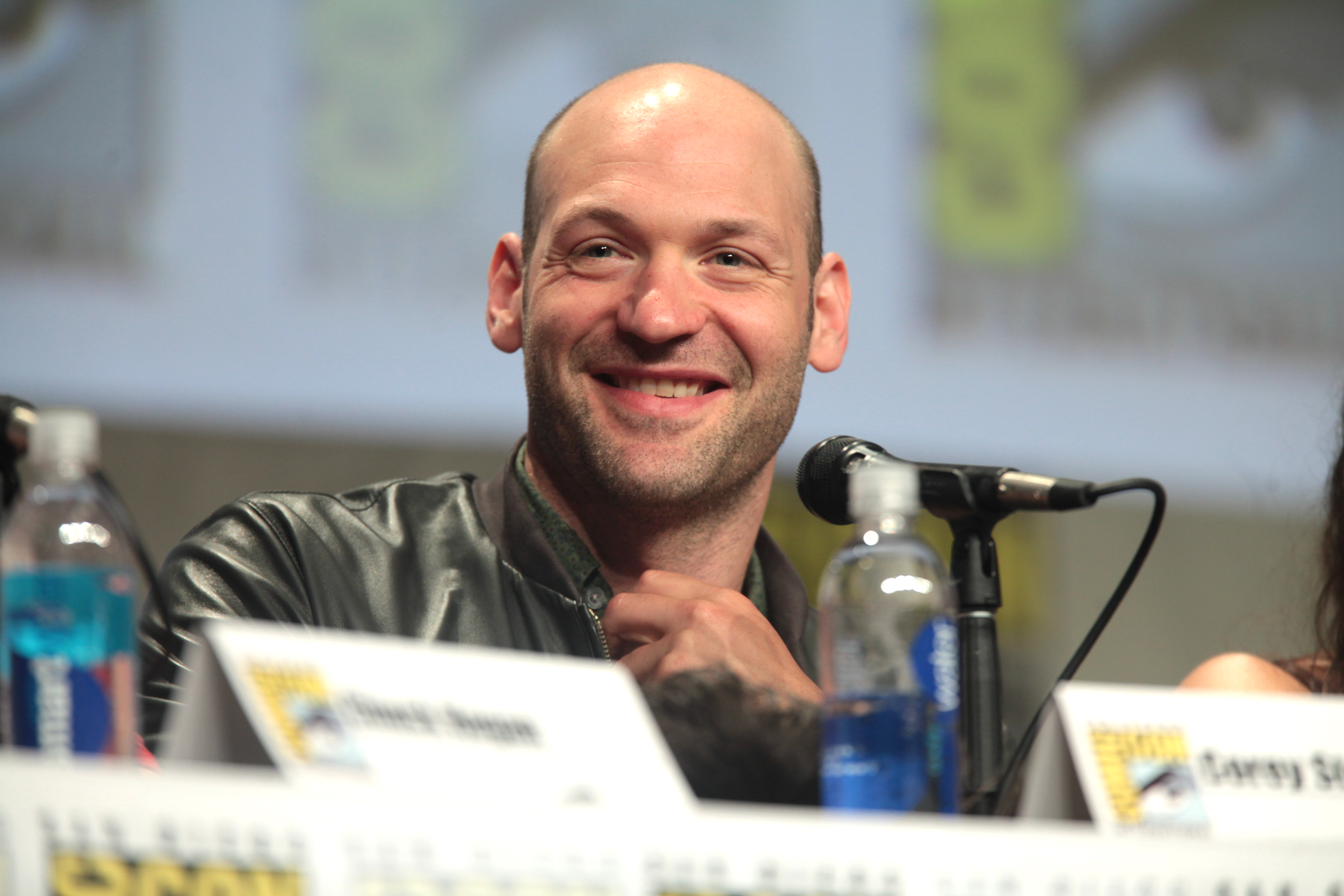 Corey Stoll speaking at the 2014 San Diego Comic Con International, for "The Strain", at the San Diego Convention Center in San Diego, California.